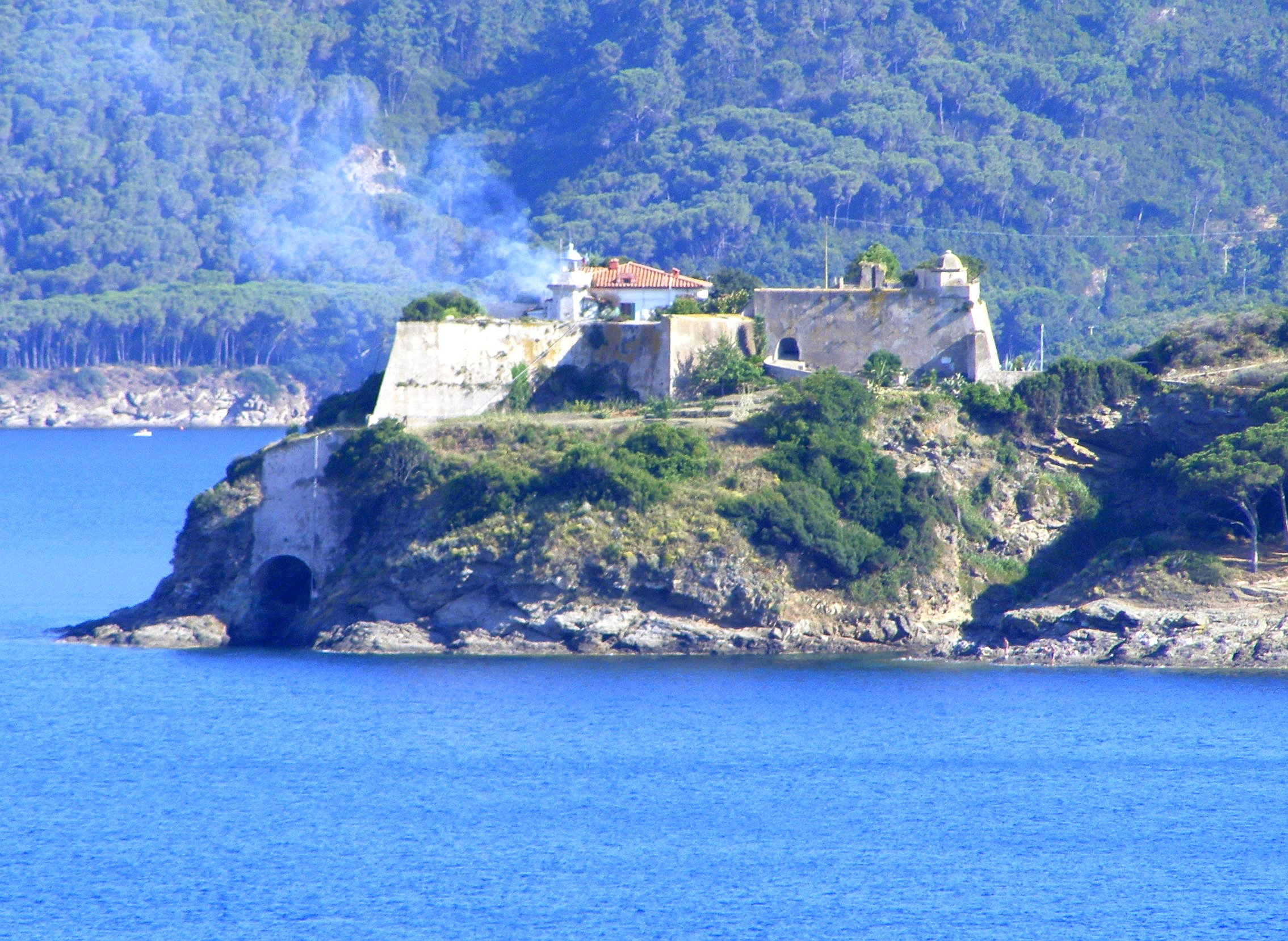 Focardo fort (Elba Island, LI, Italy)